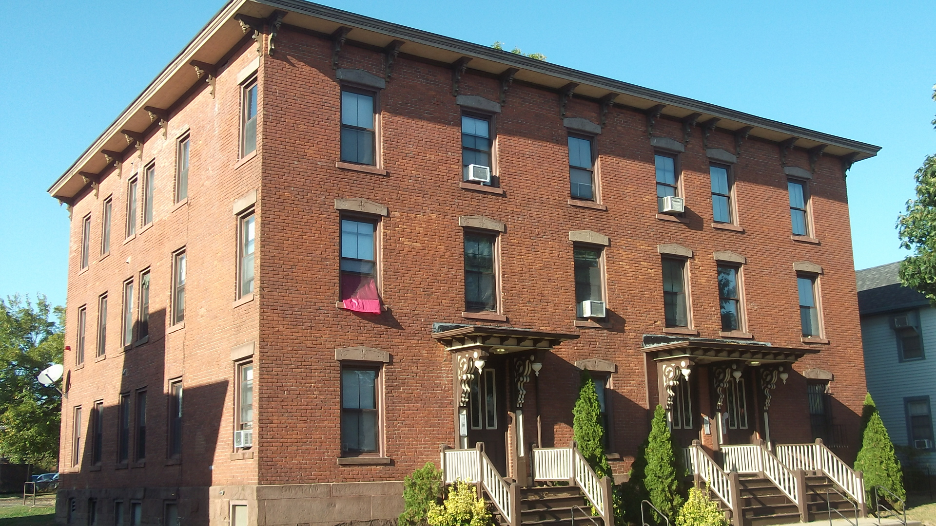 Built around 1880 as an multi-family townhouse